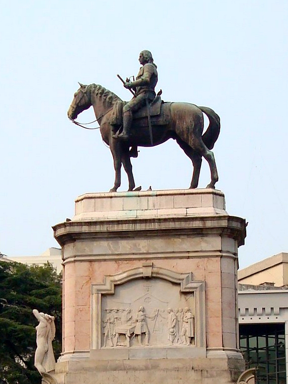 Monument to Bruno Mauricio de Zabala (detail), Plaza Zabala, Ciudad Vieja, Montevideo, Uruguay.